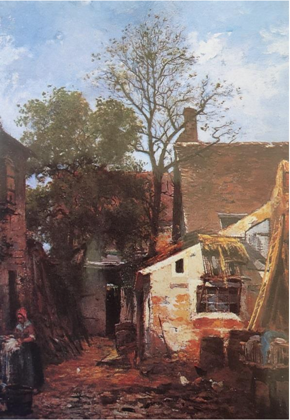 La Cour de l'auberge Ganne, Barbizon, oil on painting, unknown location.